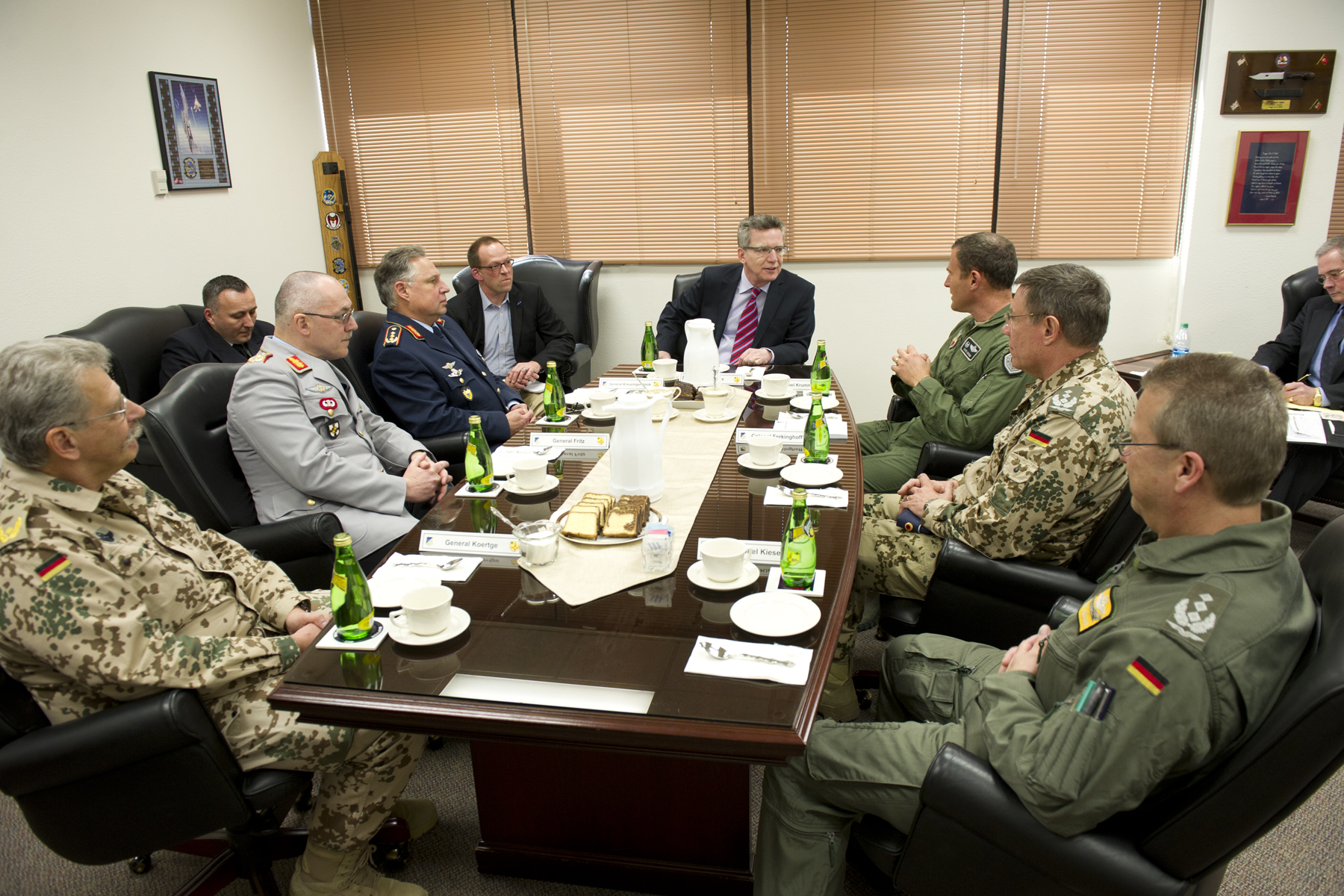 Dr. Thomas de Maiziere (center), the Germany Federal Minister of Defense, meets with U.S. Air Force Colonel David Krumm (right of de Maiziere), the 49th Wing commander, and German military officials (General Aarne Kreuzinger-Janik, General Hans-Werner Fritz, General Hasso Körtge, Colonel Frank Kiesel, Colonel Heinz-Josef Ferkinghoff) at Holloman Air Force Base, N.M., Feb. 15, 2012. The minister and 18 German and international media representatives received a first-hand look at the German Air Force Training Center during their visit. The German Air Force began flight training at the base in 1992.